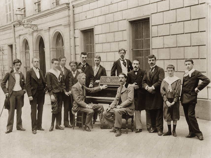 Charle de Bériot's class at the Conservatoire de Paris, by 1894-95. From left to right : Maurice Ravel, Camille Decreus, Gaston Lévy, Edouard Bernard, Fernand Lemaire, Charles de Bériot (seated at the piano), Henri Schidenhelm, Jules Robichon, Joachim Malats (seated at the piano), Marcel Chadeigne, Ricardo Viñes, Cortes, André Salomon, Ferdinand Motte-Lacroix.